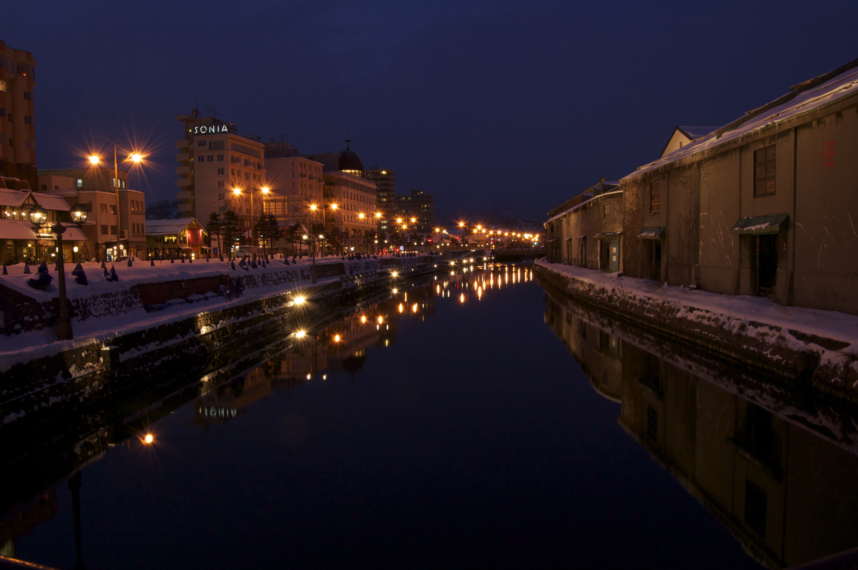 Otaru Unga